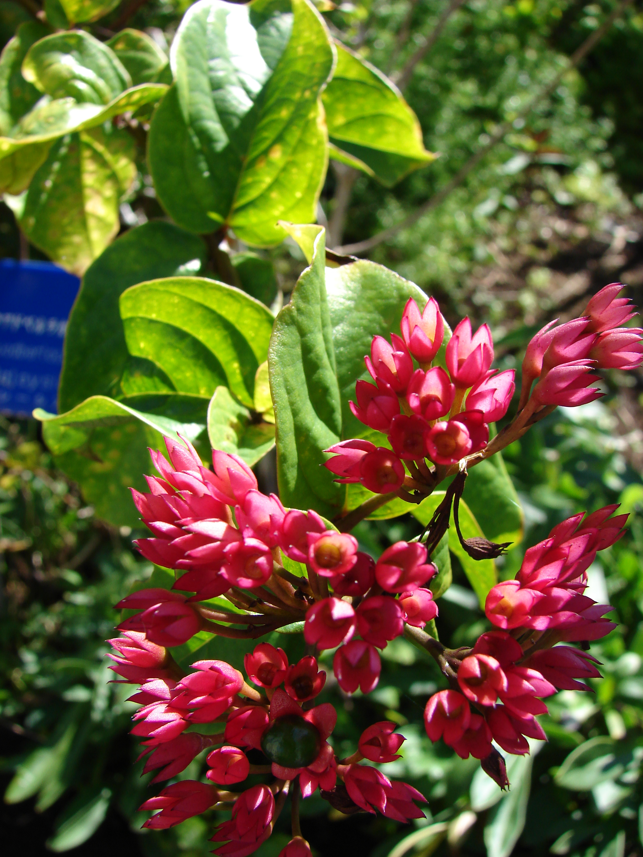 Clerodendrum splendens (flowers and leaves). Location: Maui, Enchanting Floral Gardens of Kula